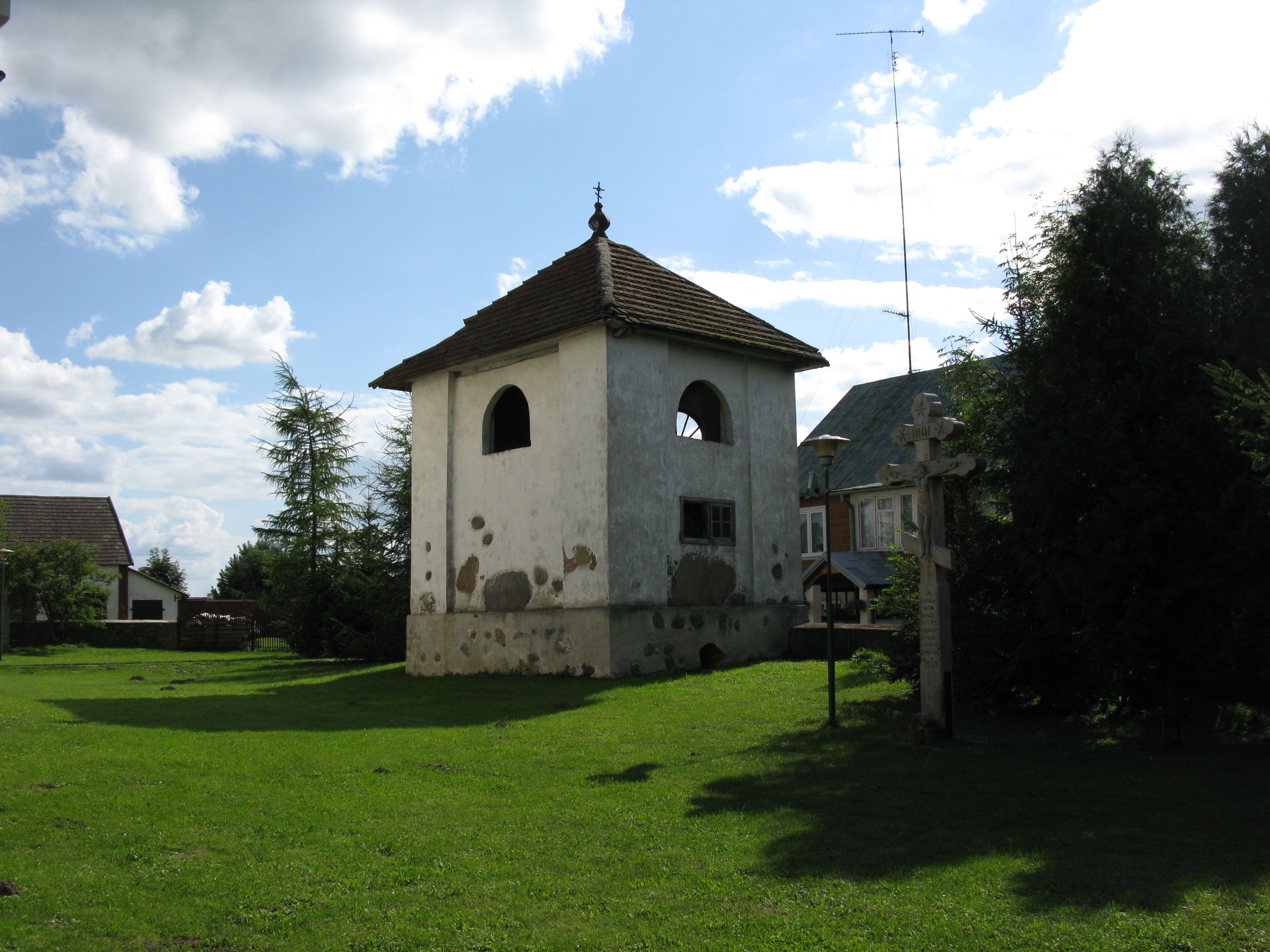 Church of the Dormition in Boćki (Podlaskie, Poland). Bell tower.